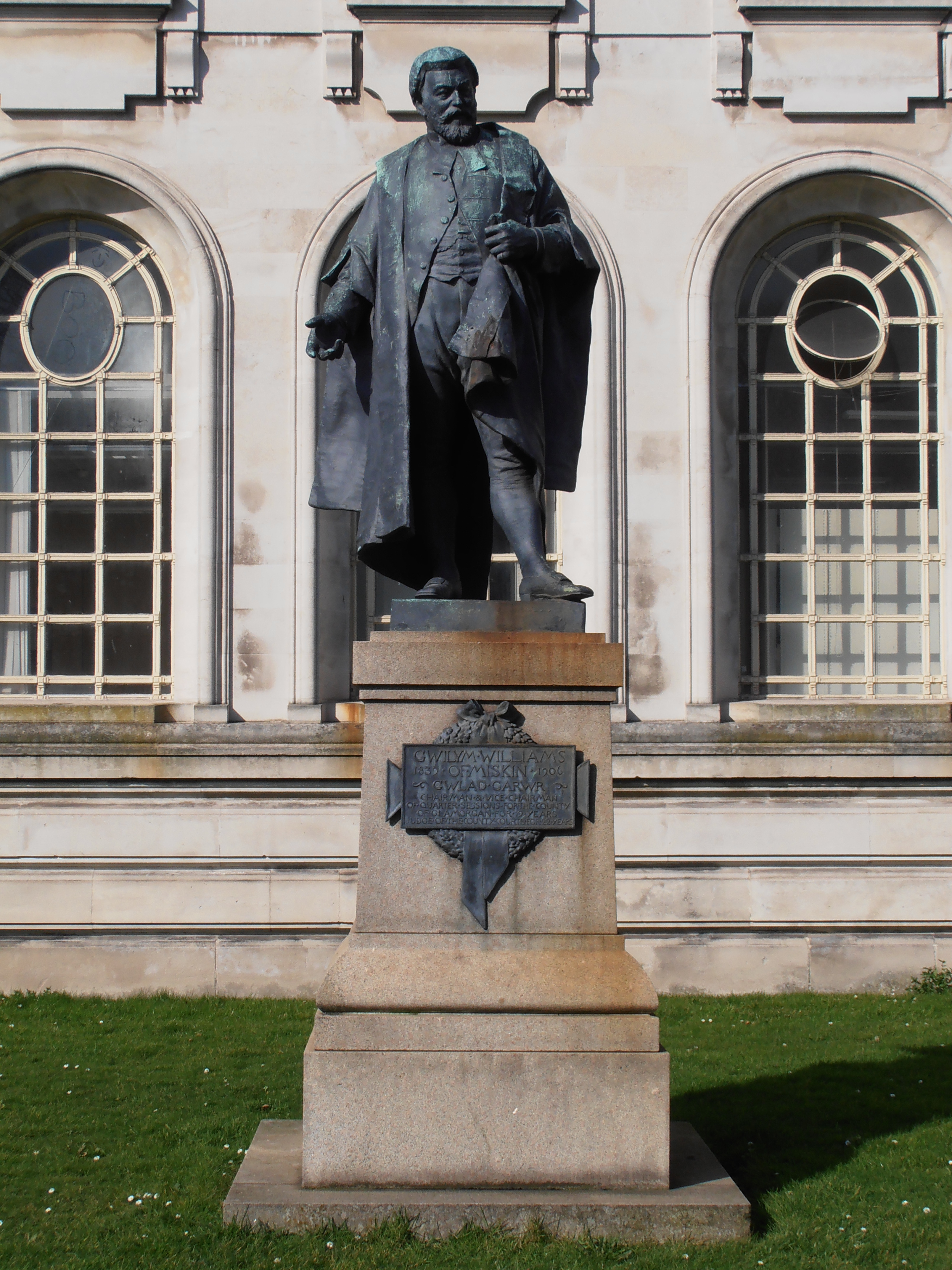 Statue of Gwilym Williams of Miskin by Sir William Goscombe John, Cathays Park, Cardiff